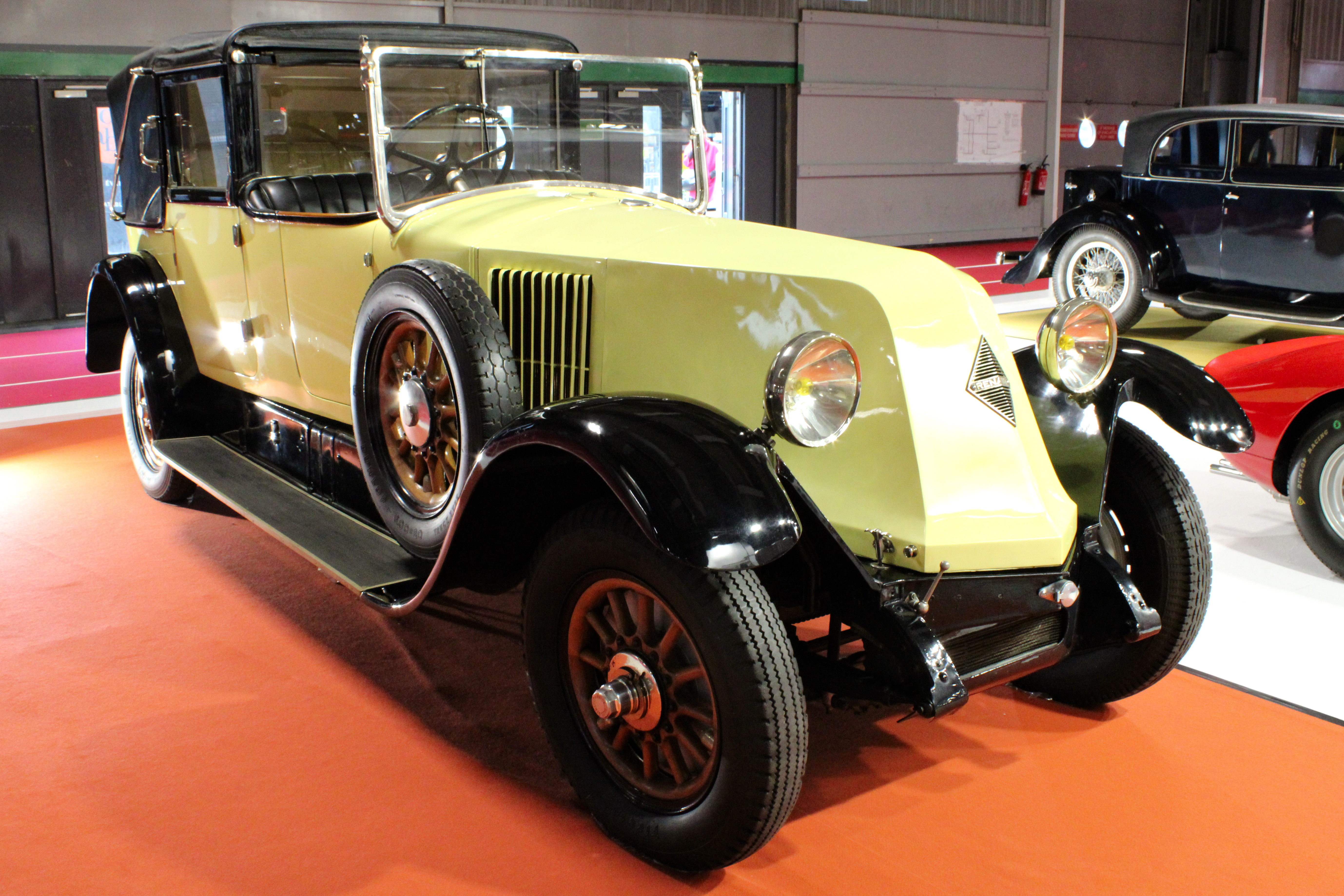 Renault NM 40 CV (1924) at Paris Motor Show 2018